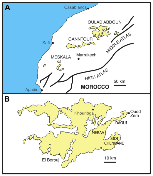 General geographical map of Morocco showing the main phosphatic basins (Ganntour and Oulad Abdoun basins)